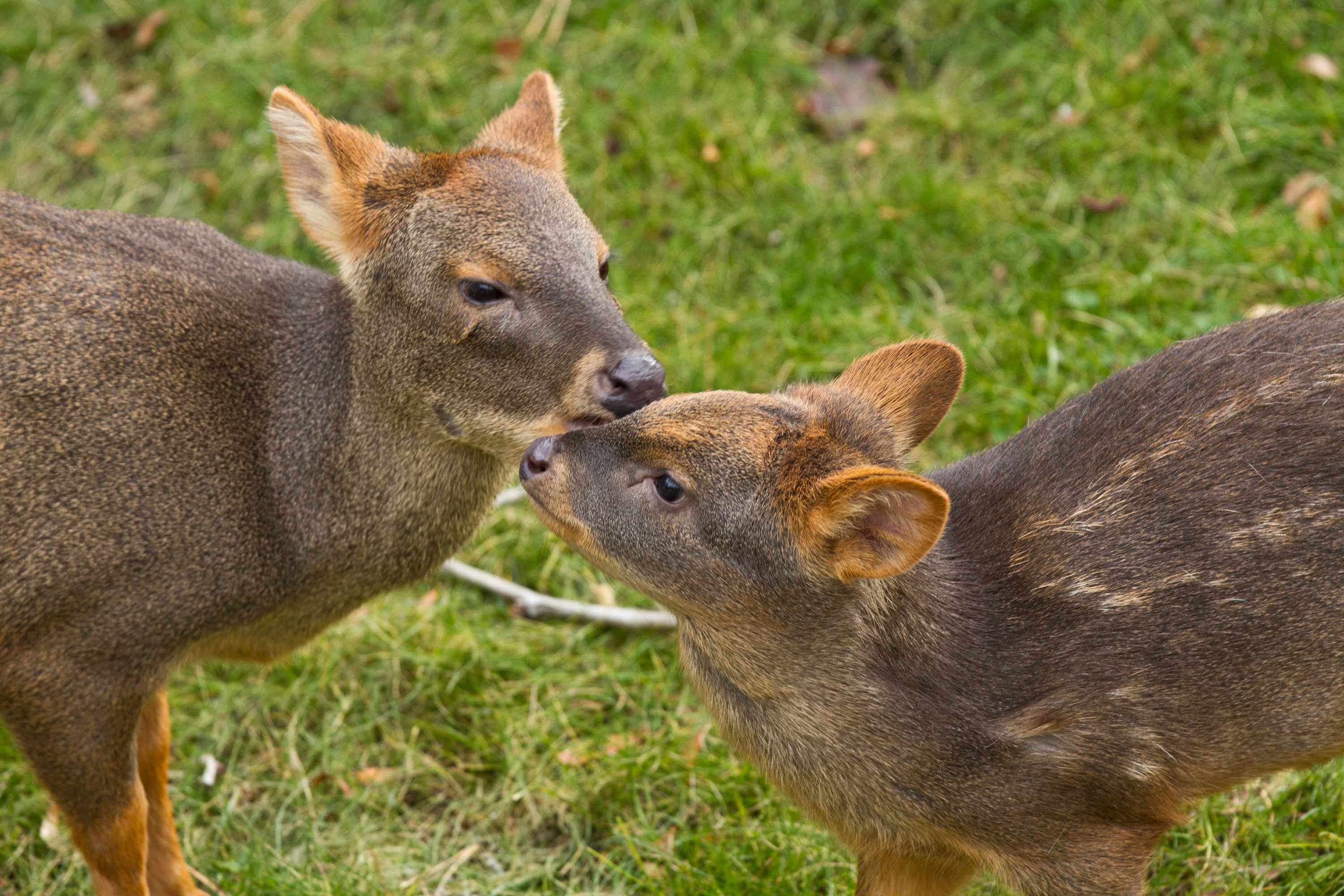 Pudu puda